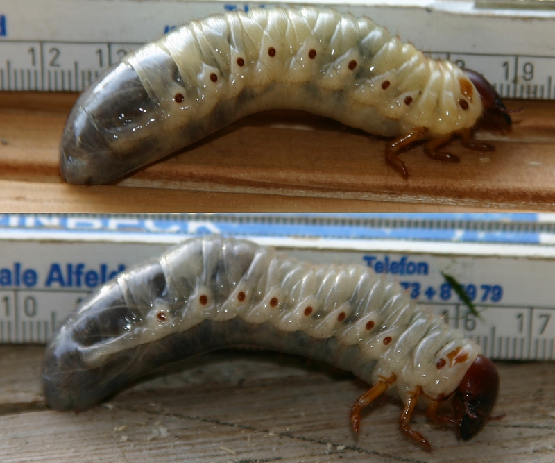 Nashornkaeferlarven